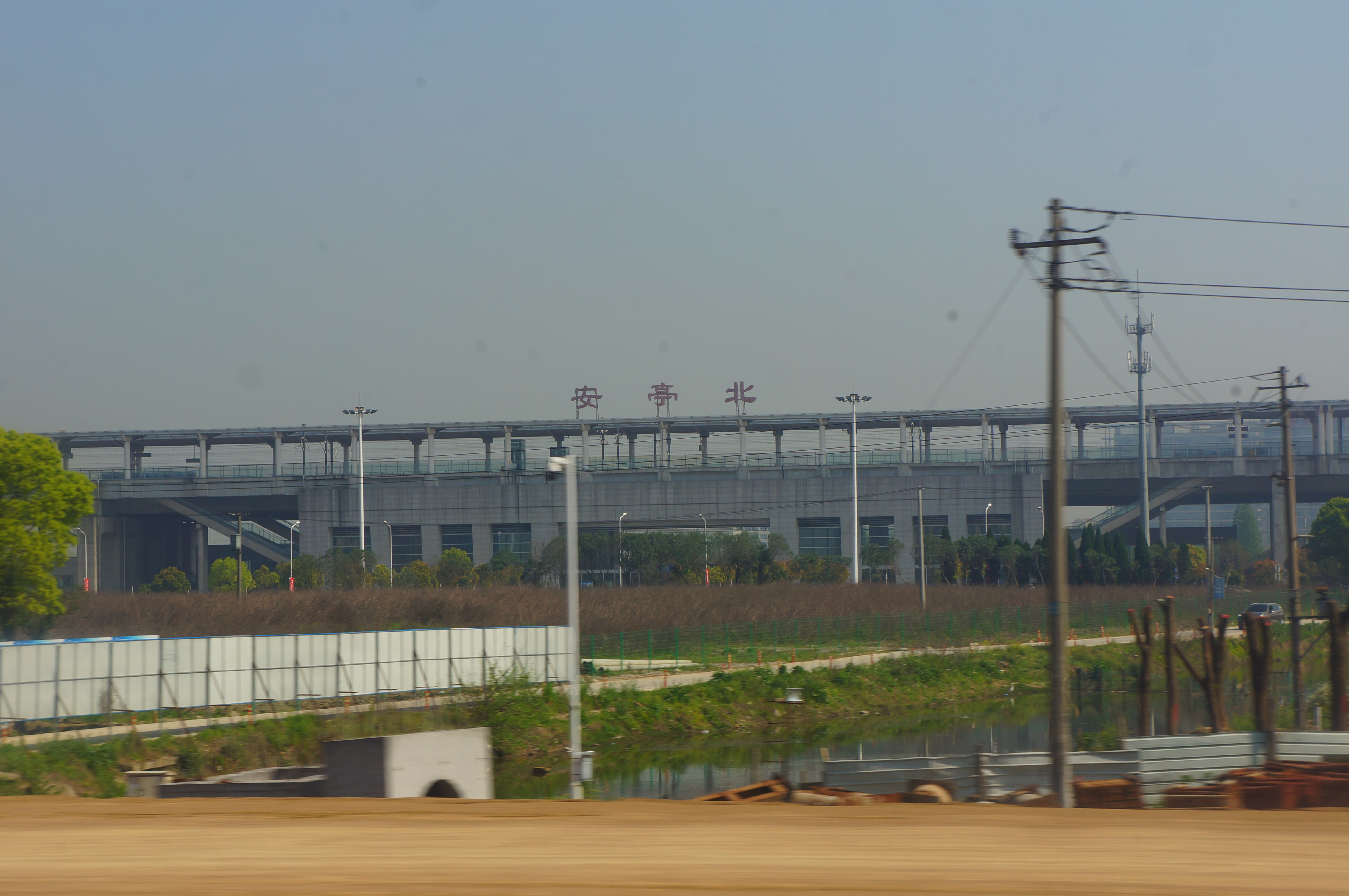 201704 Antingbei Station from Antingxi